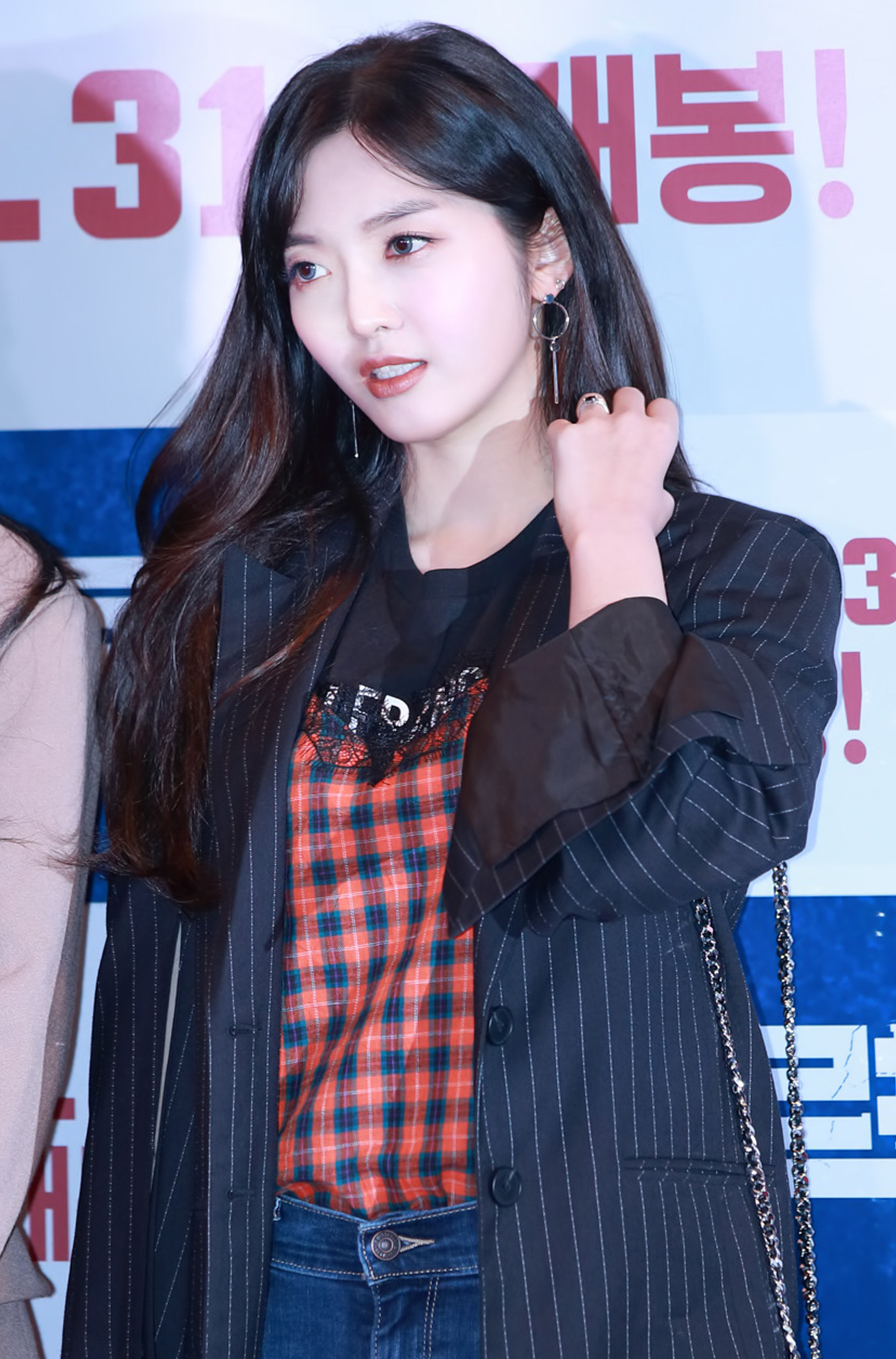 Kim Chan-mi at the VIP premiere of the movie "Psychokinesis" on January 29, 2018.